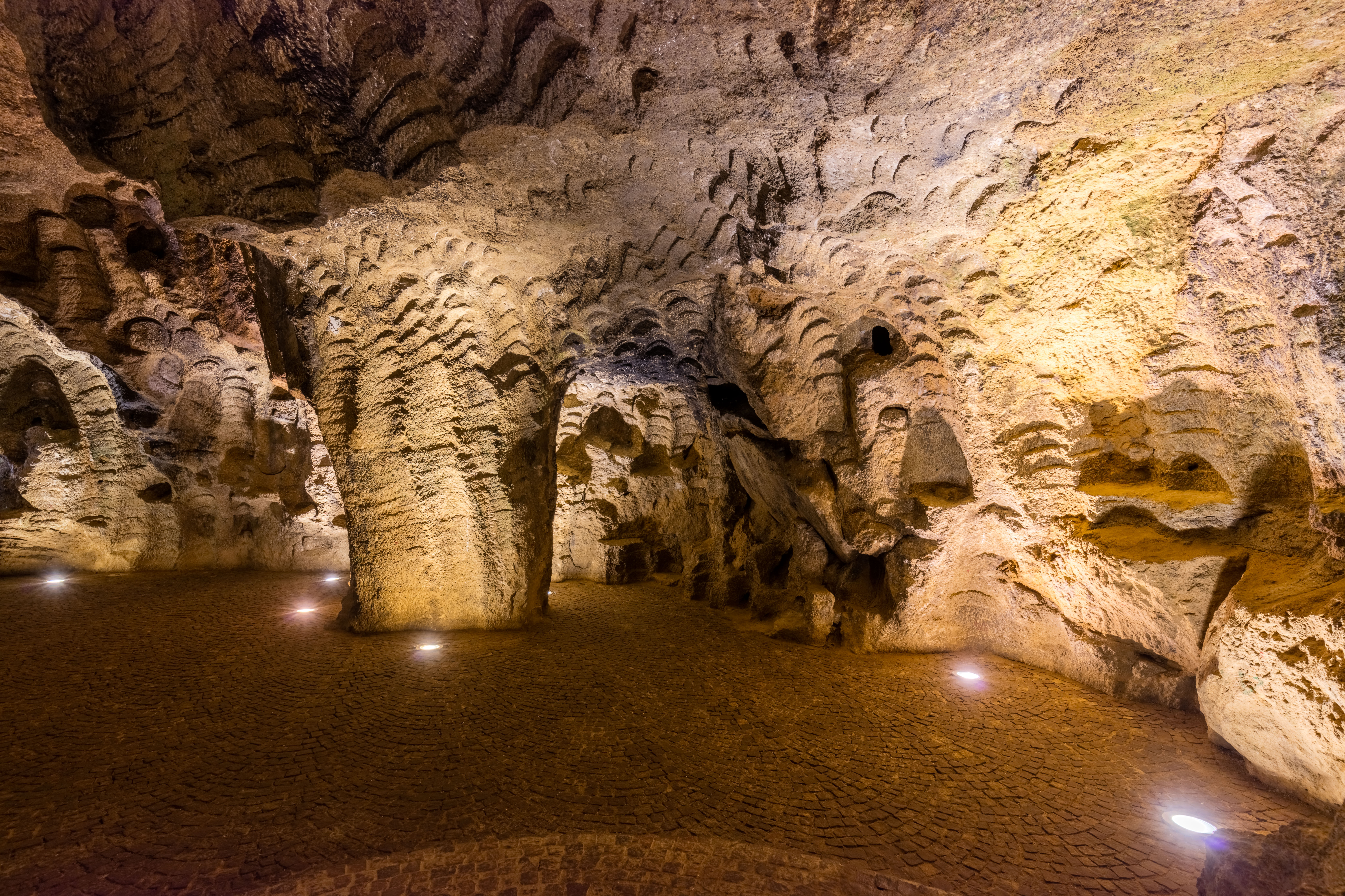 Caves of Hercules, Cape Spartel, Morocco